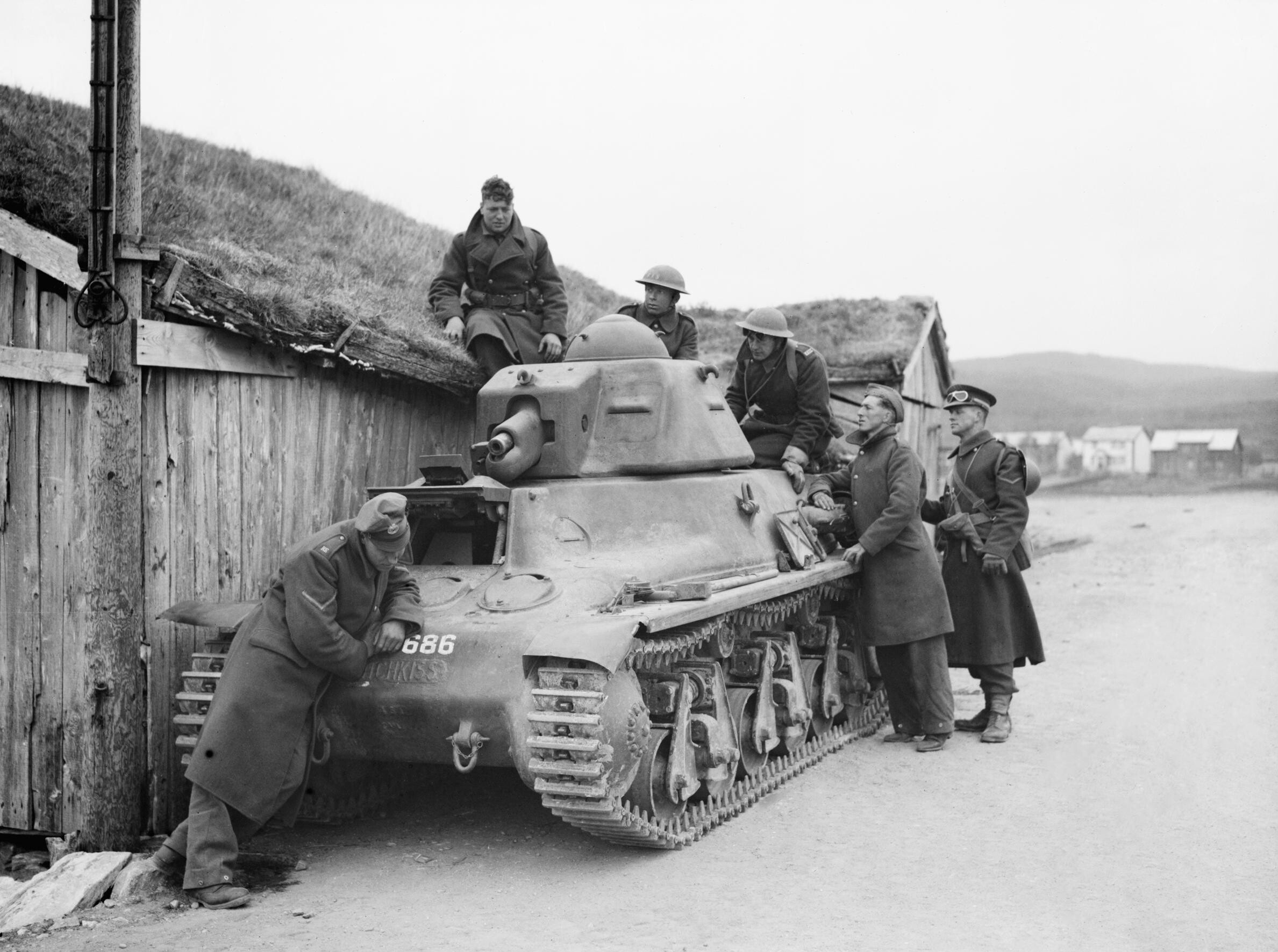 The British Army in Norway April - June 1940 British troops talking to French and Polish (Independent Podhalan Rifles Brigade) soldiers around a French Hotchkiss H39 tank in Steinsland. [Tank 40 686, 1ere section, 342e CCAC]